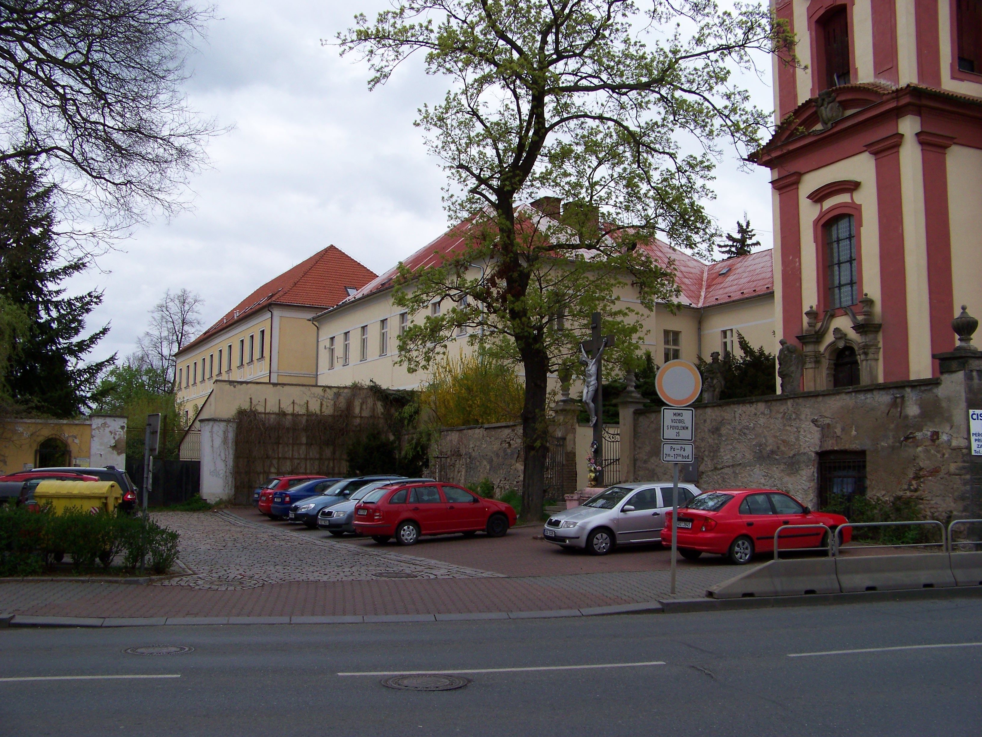 Prague-Uhříněves, Czech Republic. Náměstí Smiřických, All Saints Church and a castle.